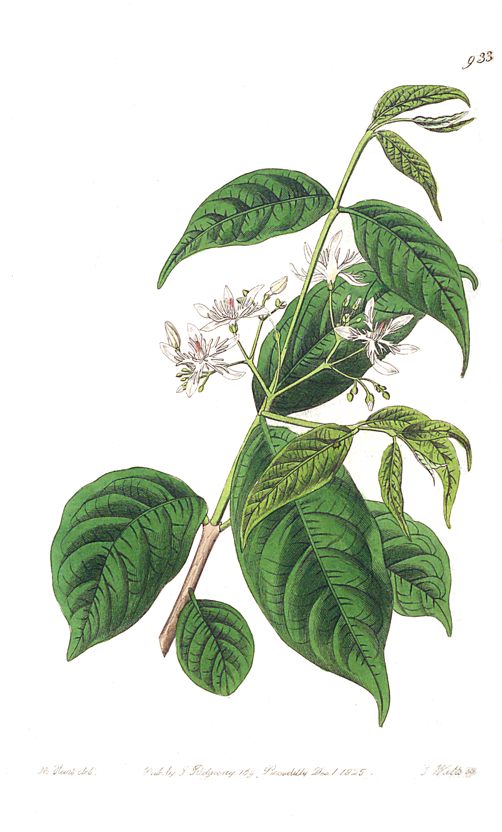 Illustration of Wrightia tinctoria from The Botanical Register Volume 11